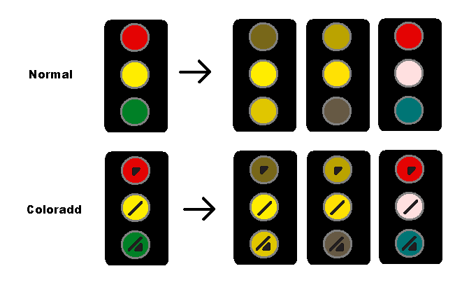 application of coloradd code in traffic lights with colorblindness